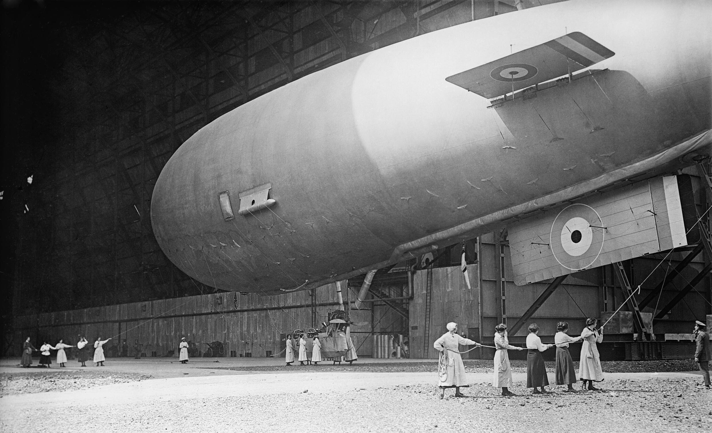 Photography British non-rigid airship of the S. S. ZERO class being handled by R. A. F. ratings at Howden Airship Station.